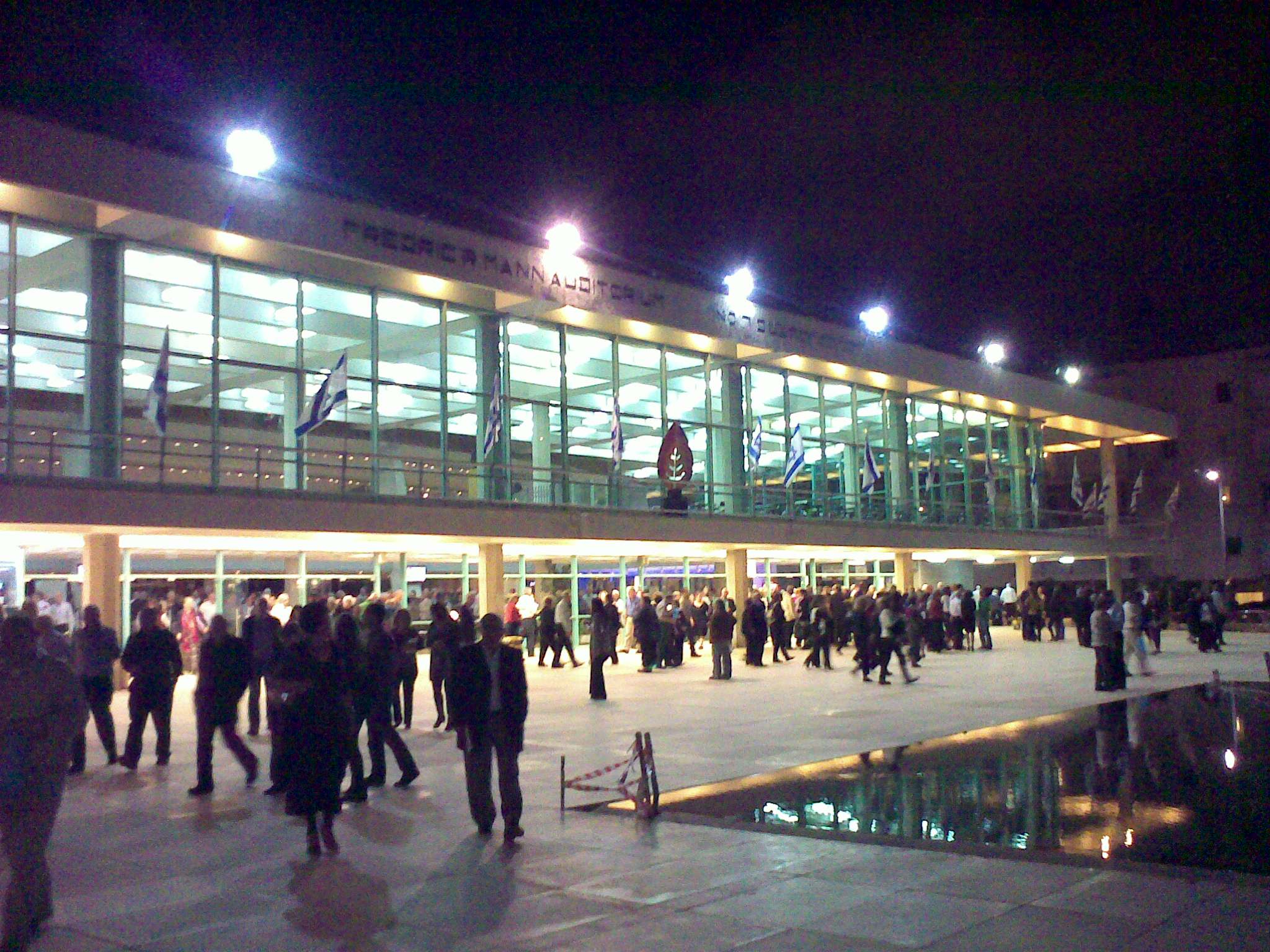 Fredric R. Mann Auditorium after concert.